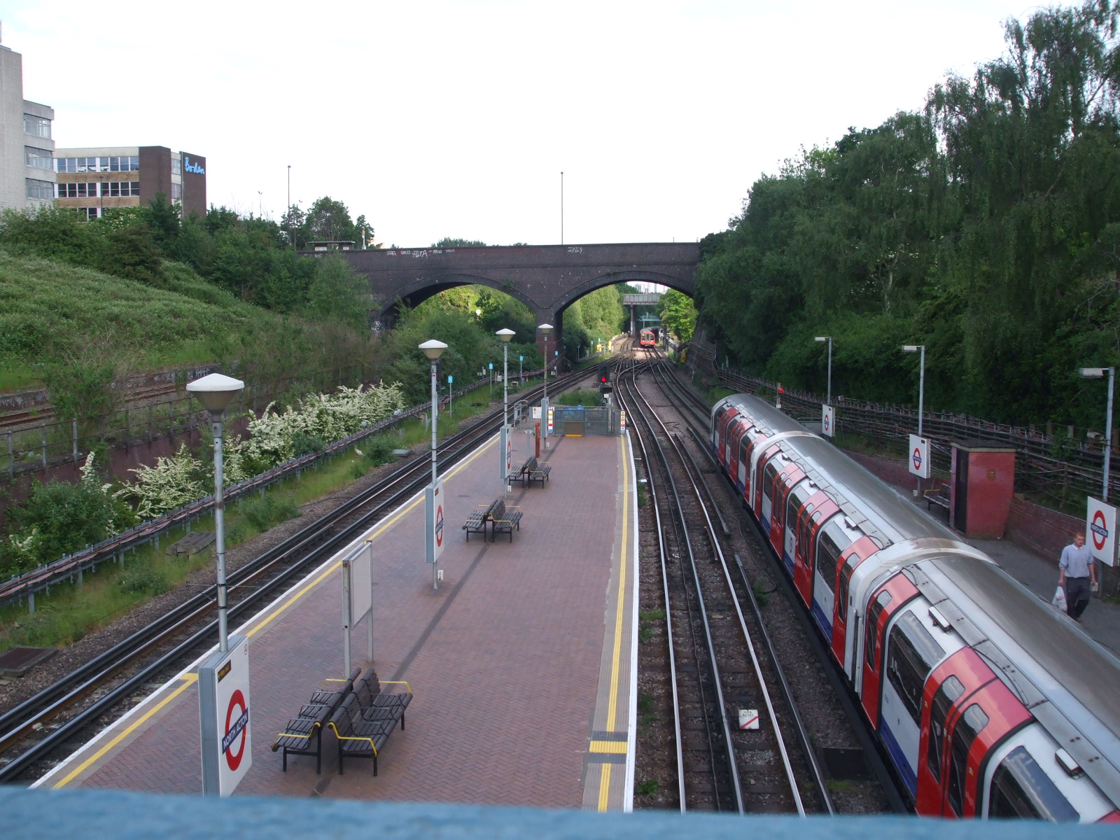 Looking east from North Acton Tube station footbridge, with eastbound island platform on the left and original Great Western station on extreme left, now abandoned and reduced to single track. The pastel-green bridge in the distance is the North London Line.